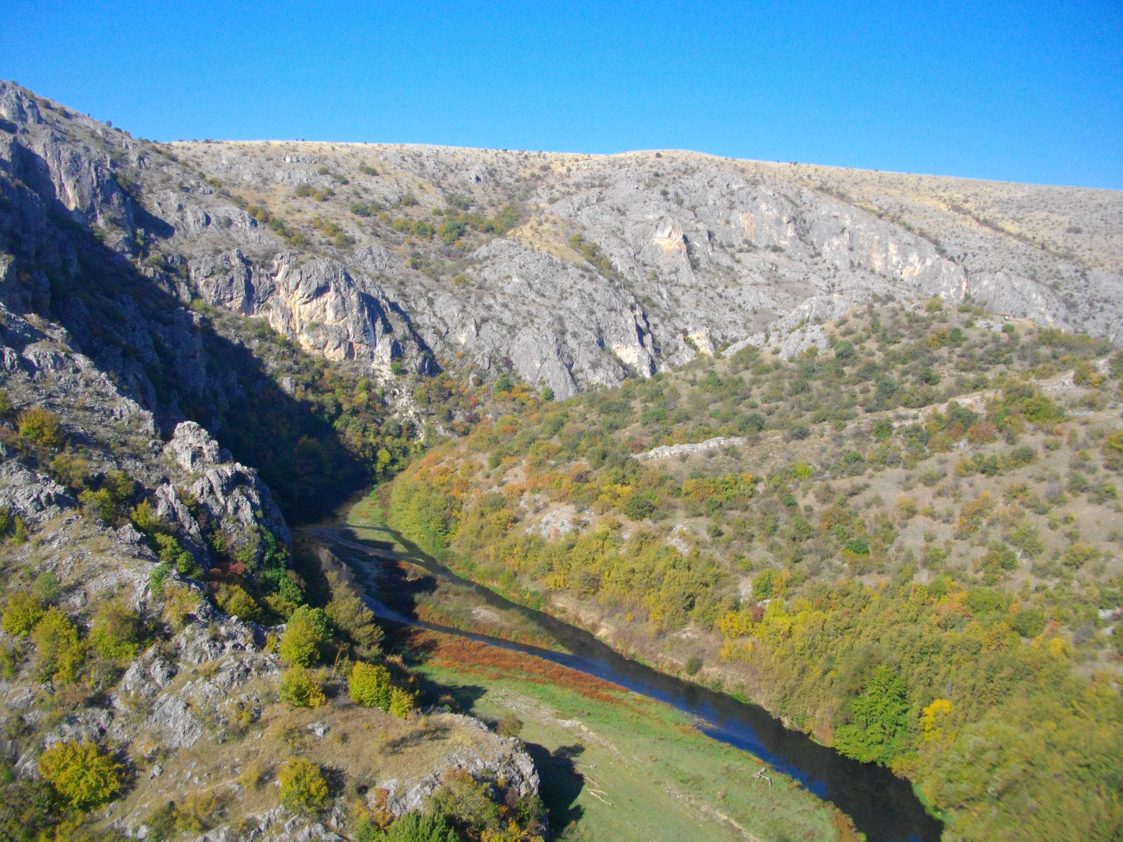 Bislim Gorge